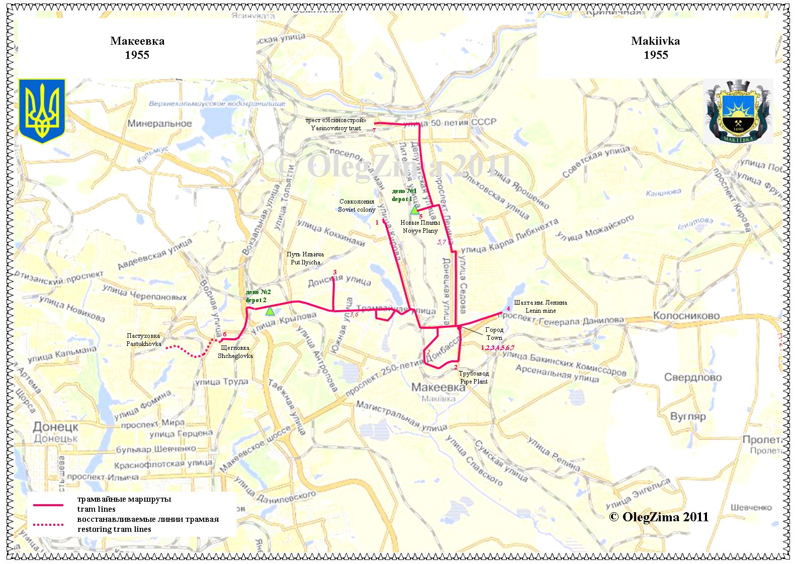 map of transport of Makeevka (Makiivka) city at 1955